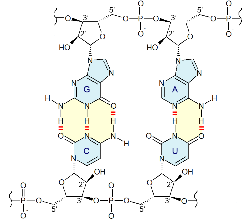 This image represents a chemical structure of RNA paring complementarily.